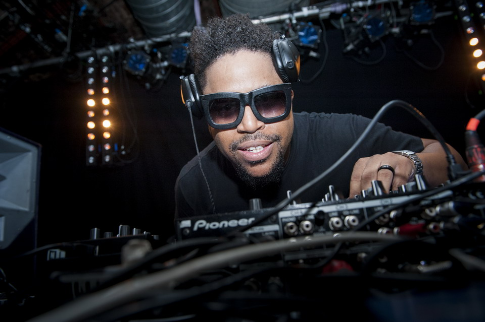 Image of Chicago house performer Felix Da Housecat performing